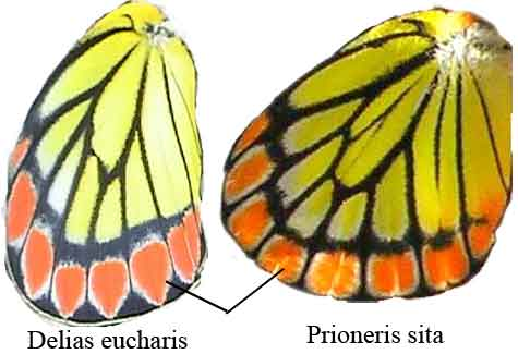 Wing images of Prioneris sita and Delias eucharis.